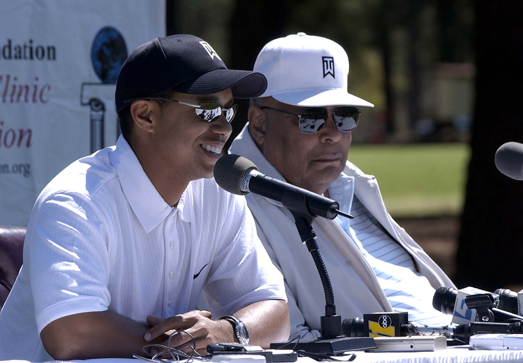 Golfer Tiger Woods, left, answers questions about his week-long Army experience at Fort Bragg, during a press conference there April 16 after a youth golf clinic. Woods took part in a variety of training events, including a jump from an airplane. Beside Woods is his father, retired Army Lt. Col. Earl Woods, a former Green Beret who served at Fort Bragg.